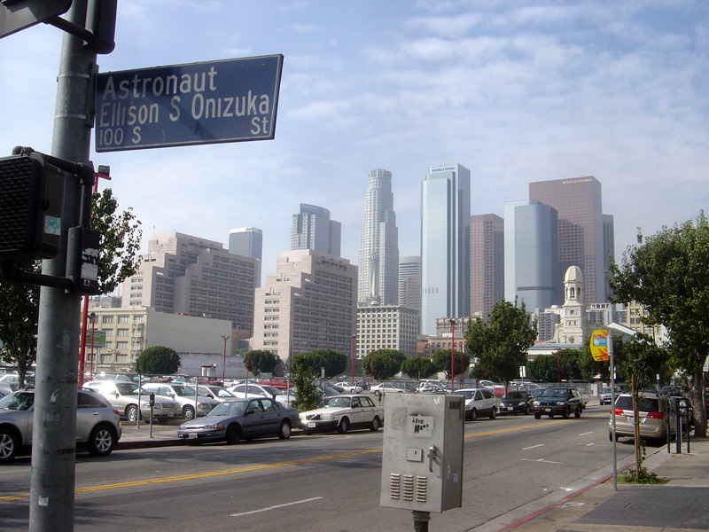 Downtown Los Angeles skyline from the Little Tokyo neighborhood in central Los Angeles, California. View of 2nd Street at Astronaut Ellison S. Onizuka Street, which is named in honor of Ellison Onizuka, a Japanese-American astronaut who died in the Challenger disaster. The landmark former Cathedral of St. Vibiana (bell tower on right), is now a performing arts space, with the Los Angeles Public Library's Little Tokyo Branch on a corner of the grounds. Credits Photo taken by Bobak Ha'Eri, on November 11, 2006. Please observe license and properly cite in use outside Wikipedia.